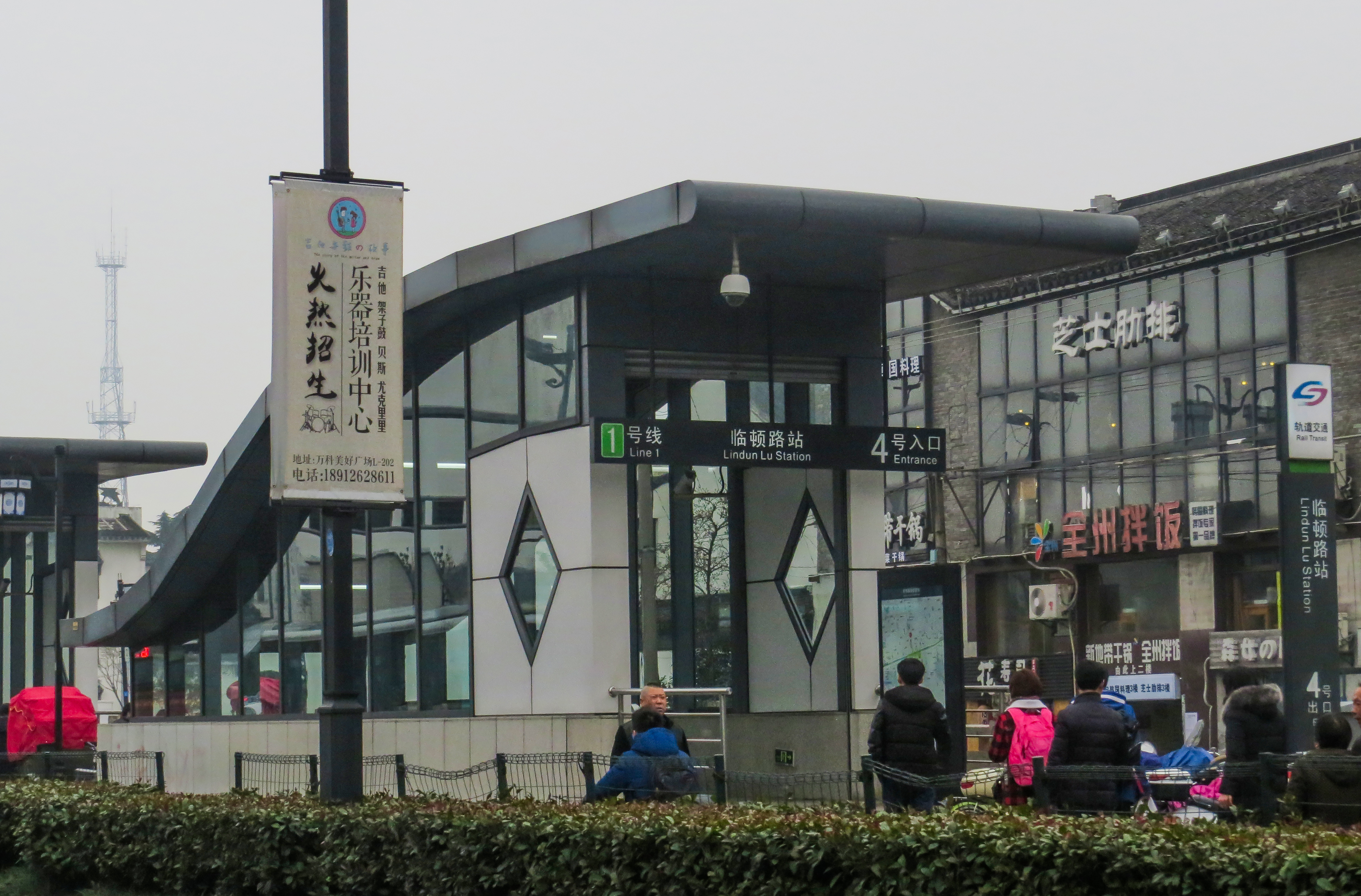 By the Tikhiy Don? Surely not.